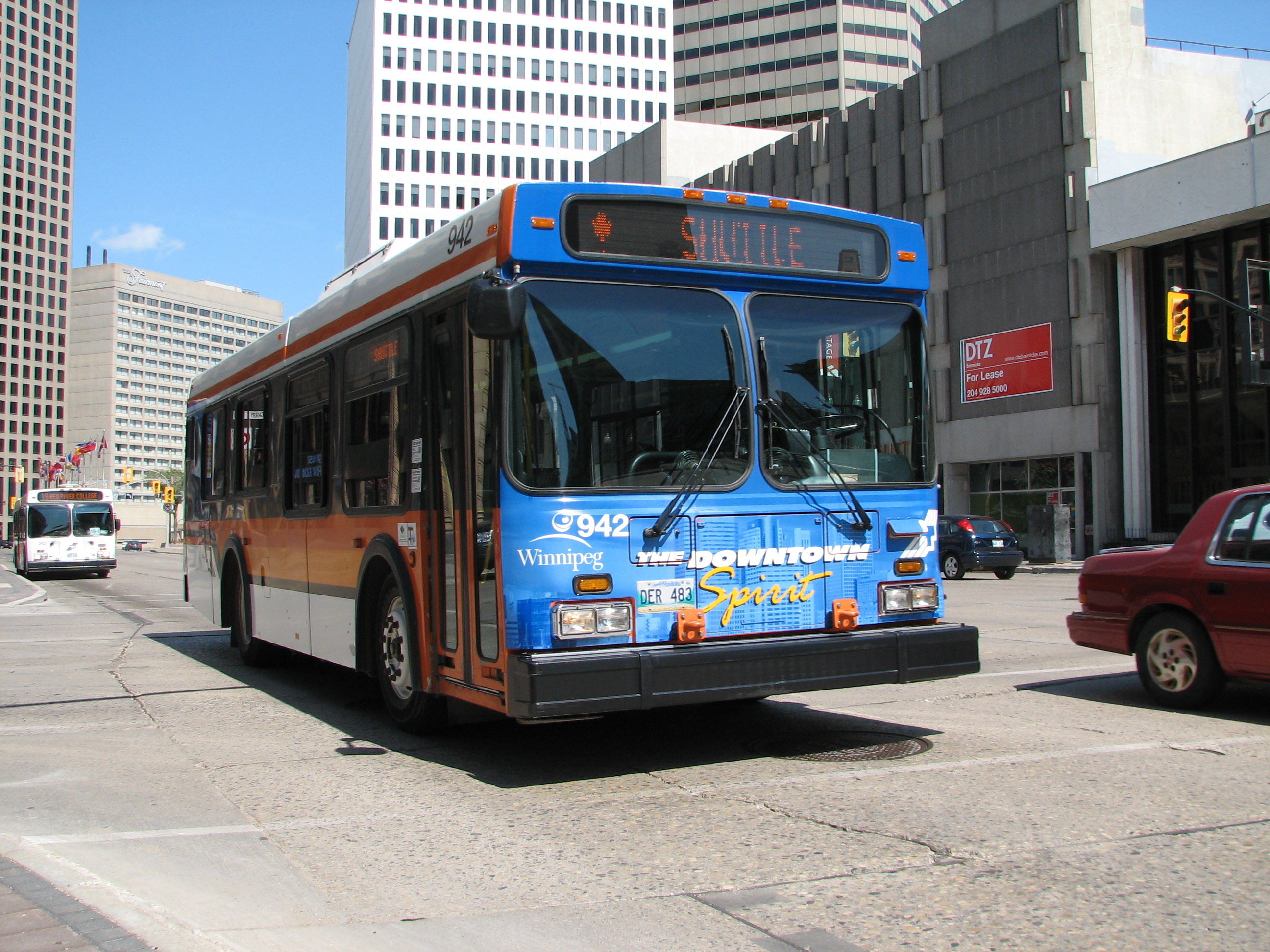 The free "Downtown Spirit" bus shutlle on Portage Ave Canada Day, 2008